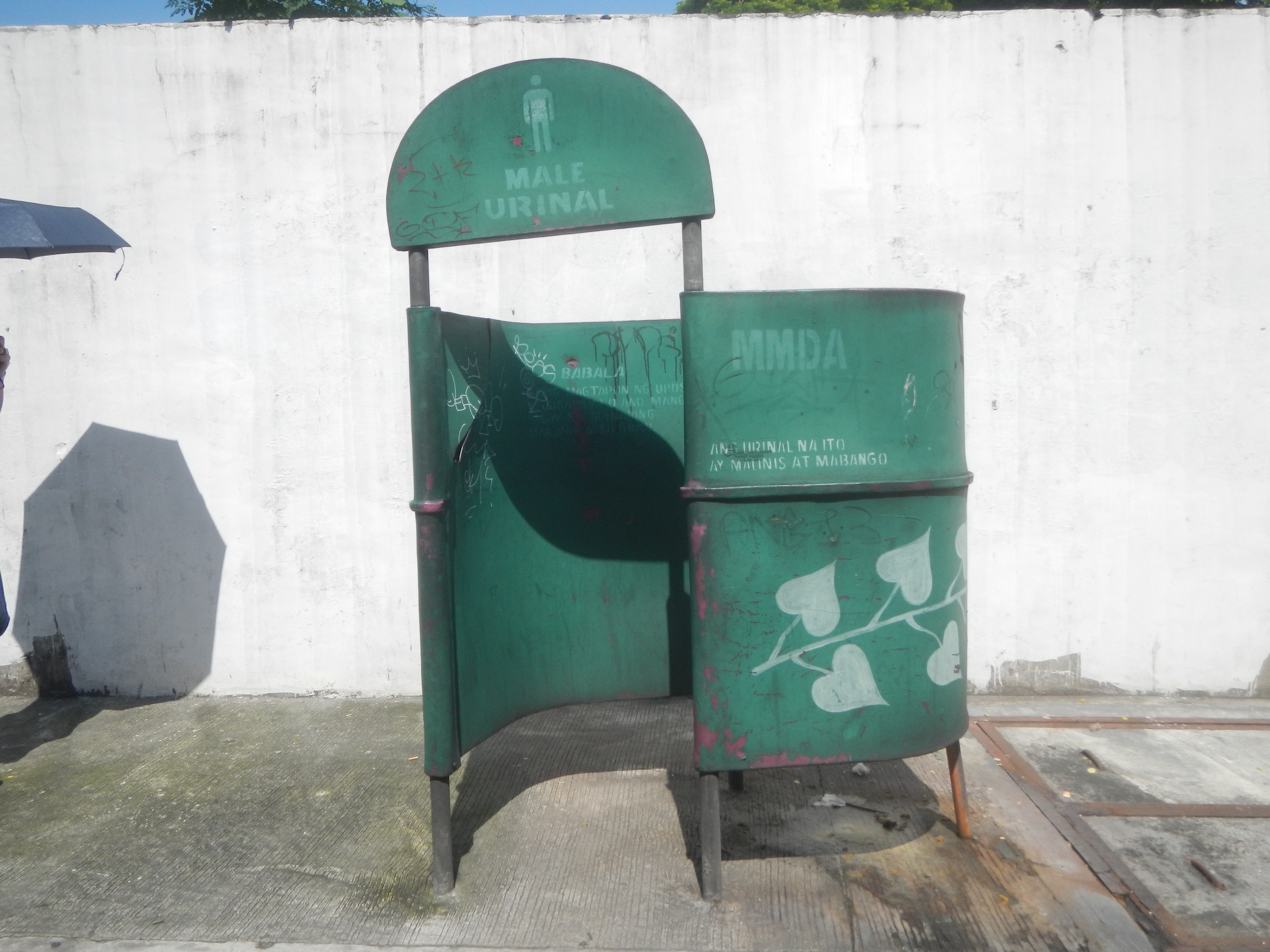 Birds Foods displayed for sale and trade Sampaguita, Ilang-Ilang and Camia Flower garlands in the Philippines in List of barangays of Metro Manila, Legislative districts of Quezon City Districts 3, Barangays of Quezon City, Loyola Heights (Katipunan) 14°38'15"N 121°4'26"E, Quezon City Philippine highway network (Note: Judge Florentino Floro, the owner, to repeat, Donor Florentino Floro of all these photos hereby donate gratuitously, freely and unconditionally Judge Floro all these photos to and for Wikimedia Commons, exclusively, for public use of the public domain, and again without any condition whatsoever).